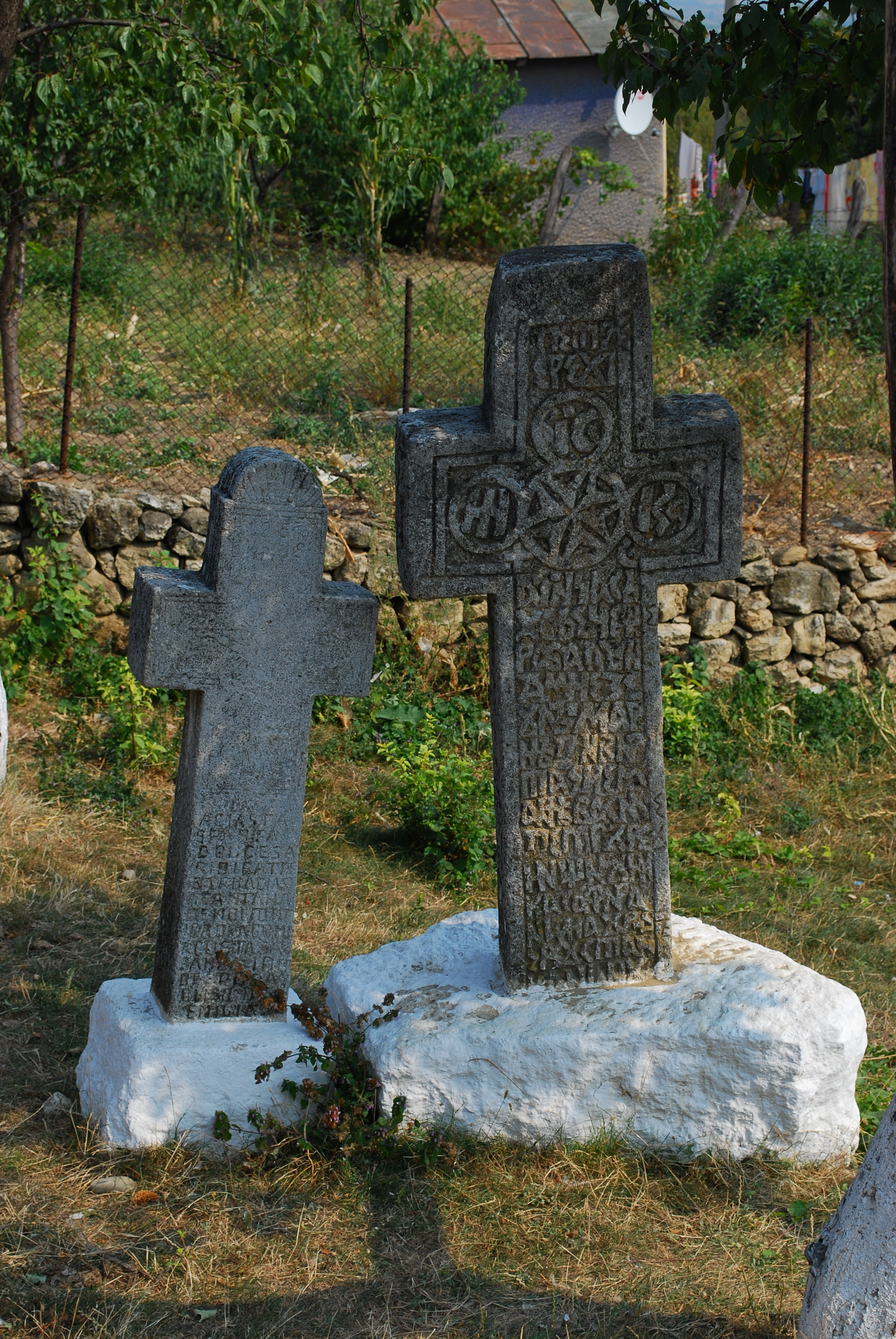 18th century stone cross in Pietroasele, Buzău County, RomaniaRomână: Cruce de piatră din secolul al XVIII-lea la Pietroasele, judeţul Buzău, România